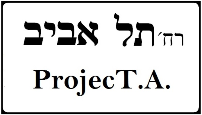 ProjecT.A.- Am Yisrael Foundation